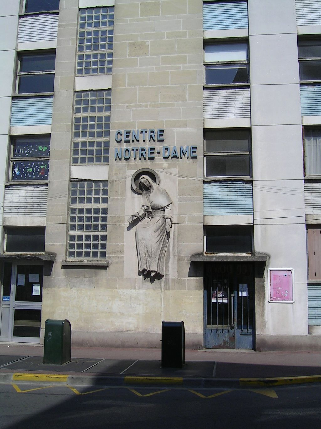 Centre Notre-Dame, rue H. Maillard Photo personnelle (own work) de Marianna